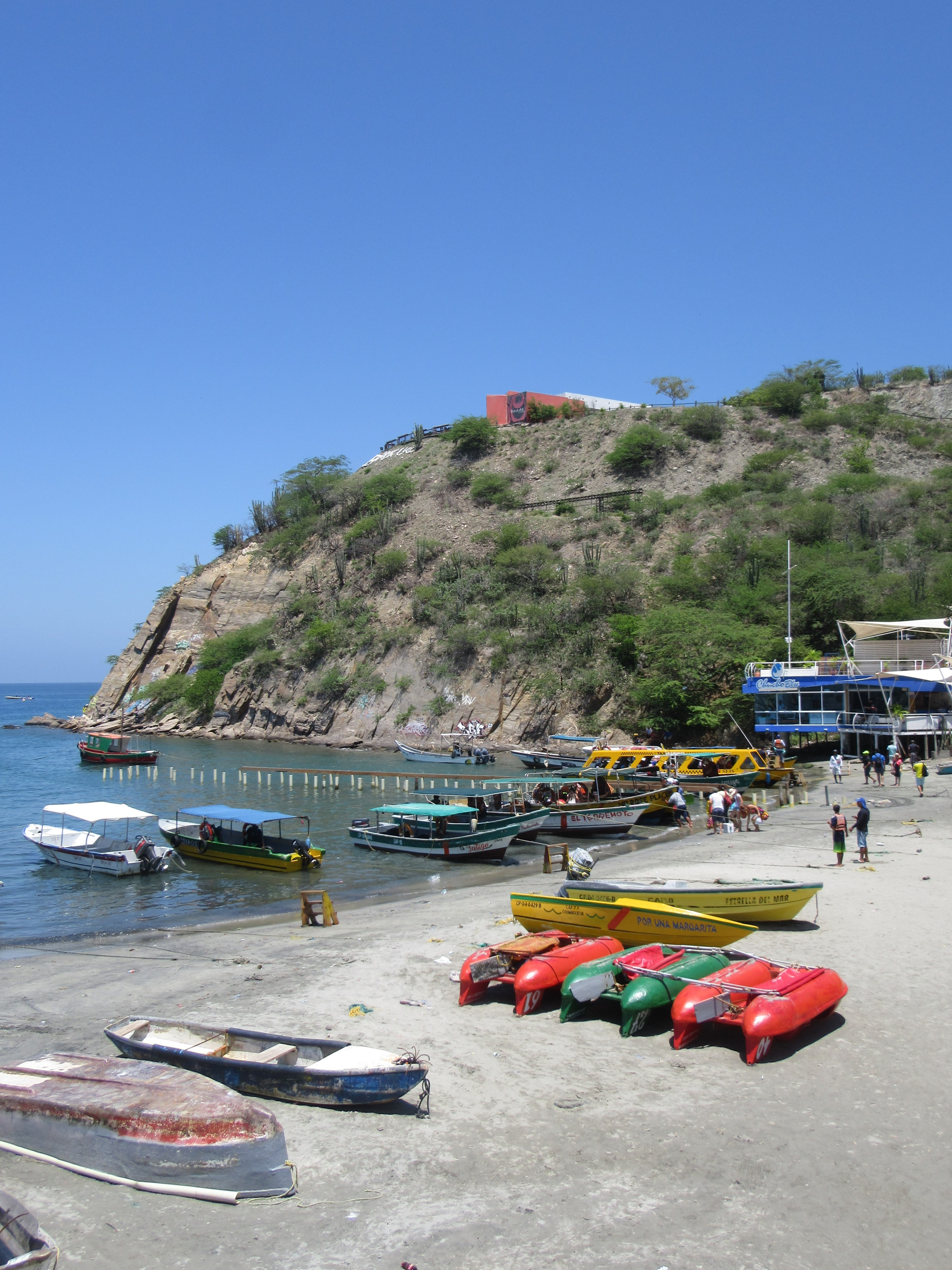 El Rodadero